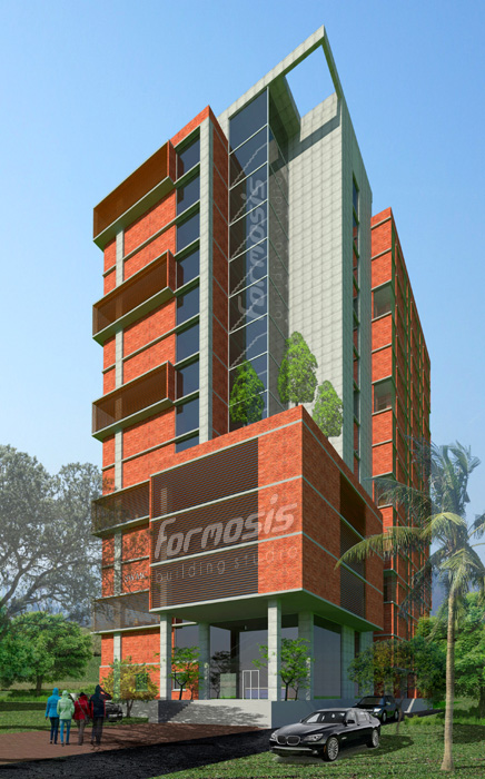 Sylhet Women's Medical College Hostel building designed by Formosis building studio